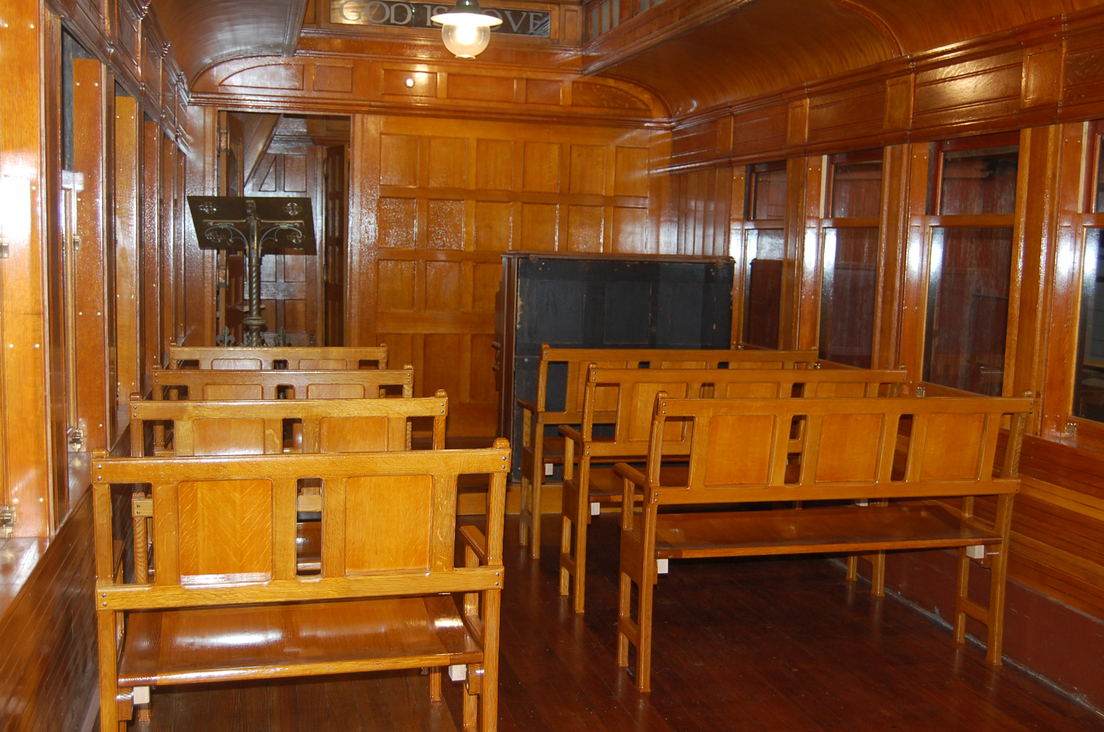 Messenger of Peace Chapel Car is on the National Registry of Historic Places (NRHP #08000998)